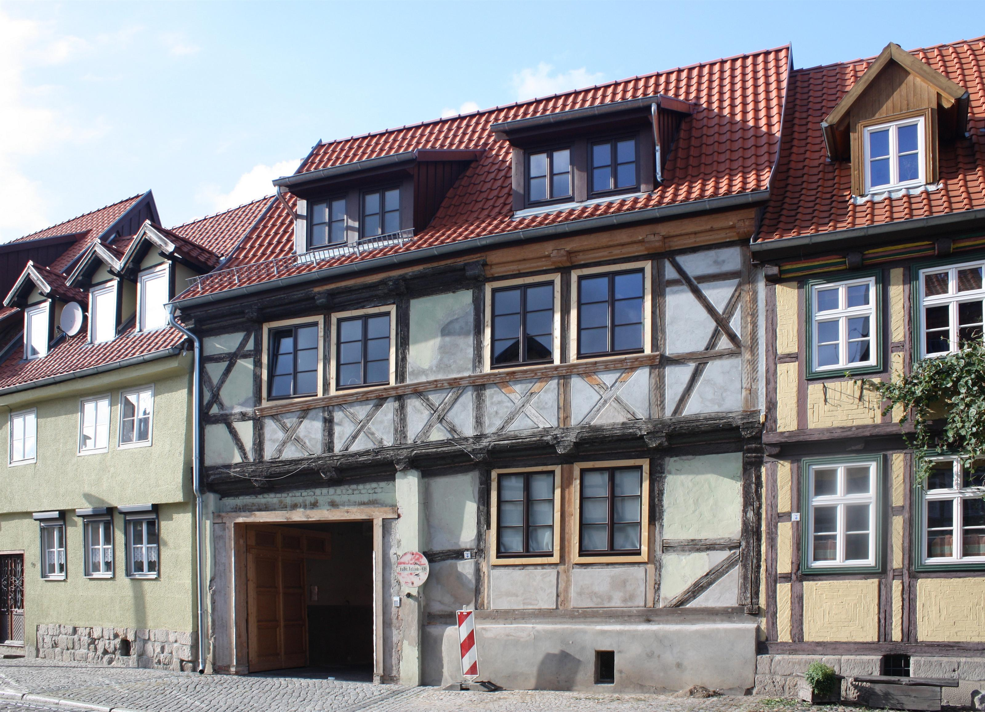 This is a photograph of an architectural monument.It is on the list of cultural monuments of Quedlinburg Augustinern 10 in Quedlinburg